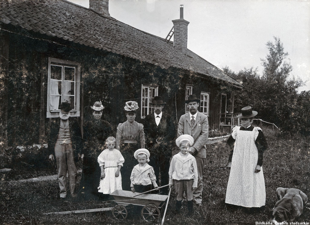 The building "Långkatekesen" or "Kronobyggningen" at Snavlunda, Örebro, in the 1890-ies.